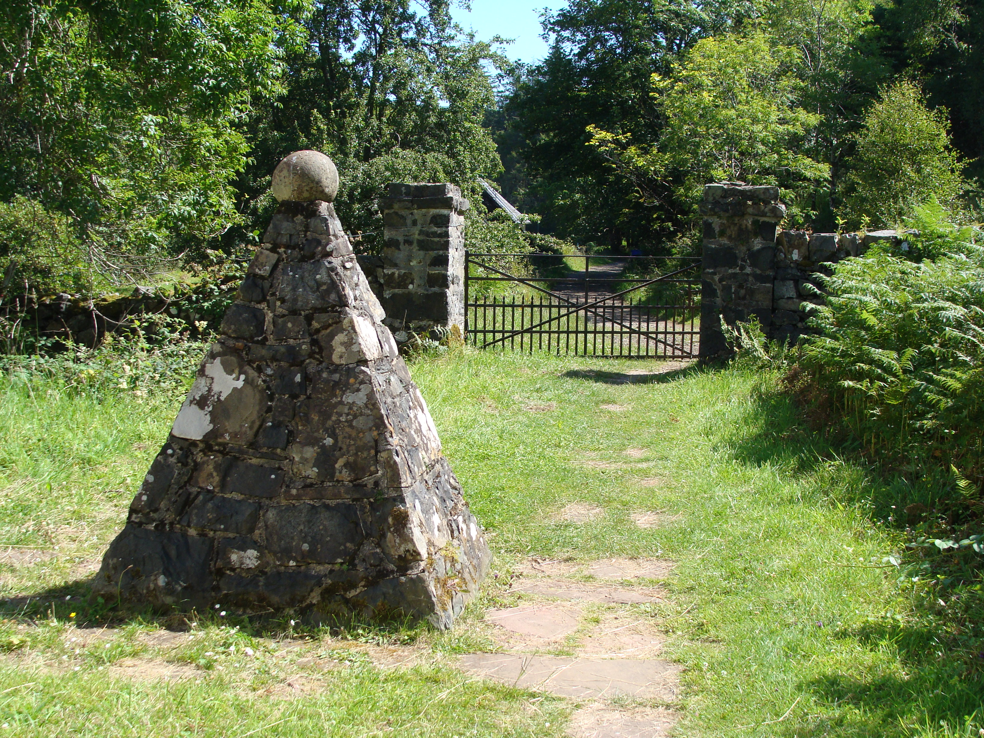 Ulva Churhyard, Scotland